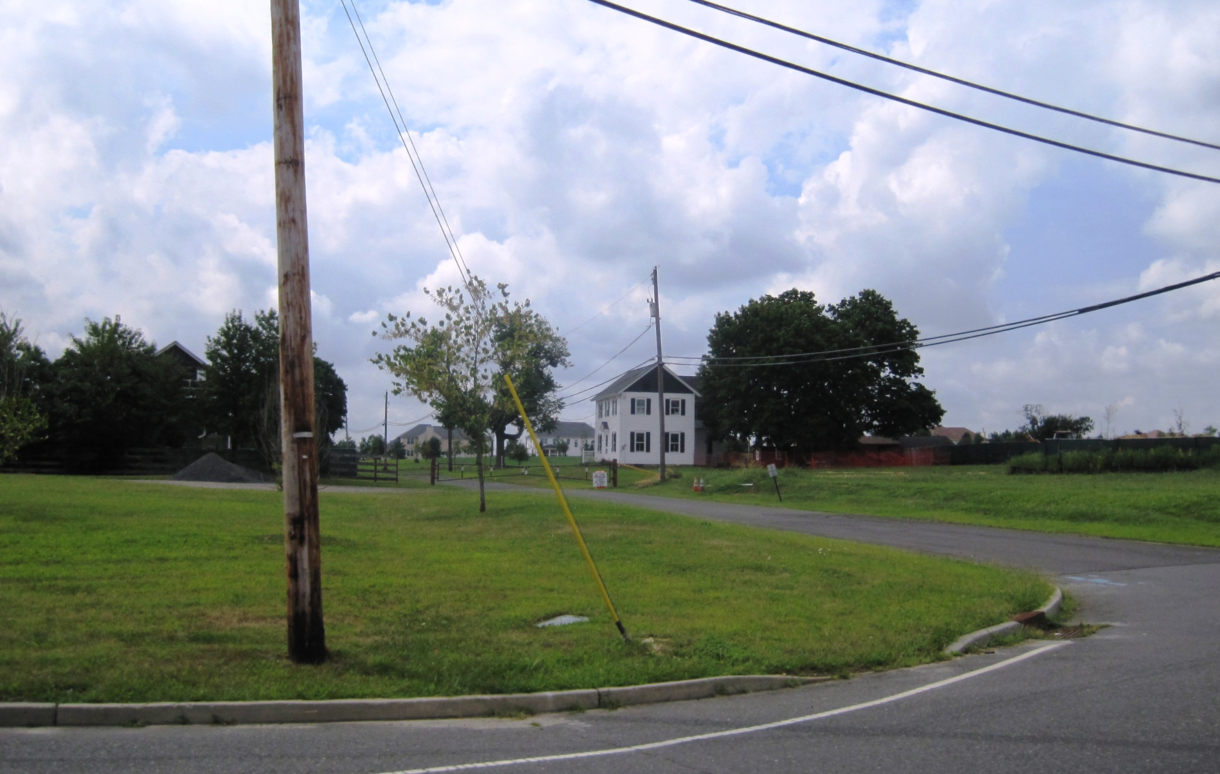 Photo of Dey Grove Farm within Old Church, New Jersey, an unincorporated community within Monroe Township, Middlesex County. Photo taken along Federal Road.